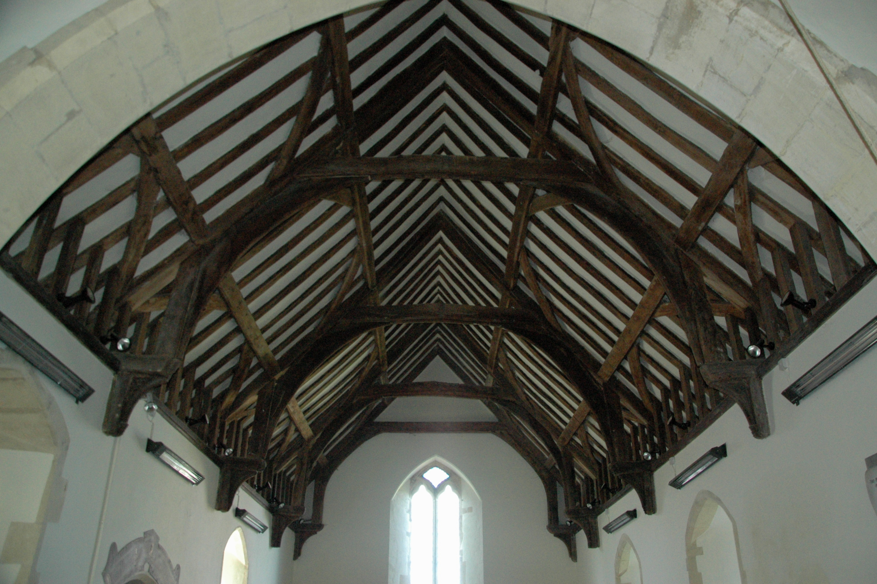 Church of England parish church of St Mary, Sydenham, Oxfordshire: looking west from the chancel arch up to the 15th-century hammerbeam roof of the nave